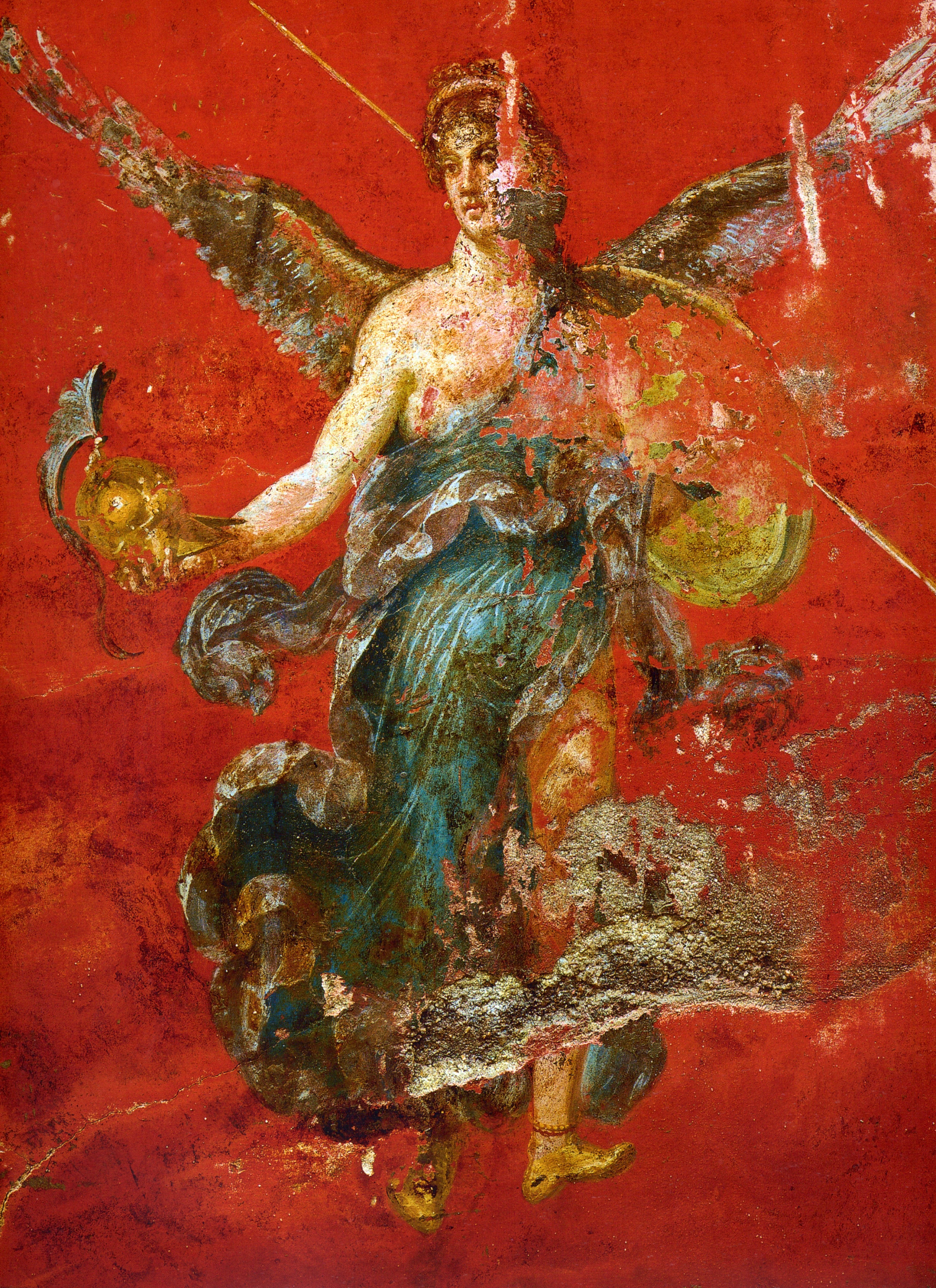 Part of a muse cycle. Roman fresco (4th style) from the thermae of the Hospitium dei Sulpicii in Murecine near the Porta di Stabia of Pompeii.